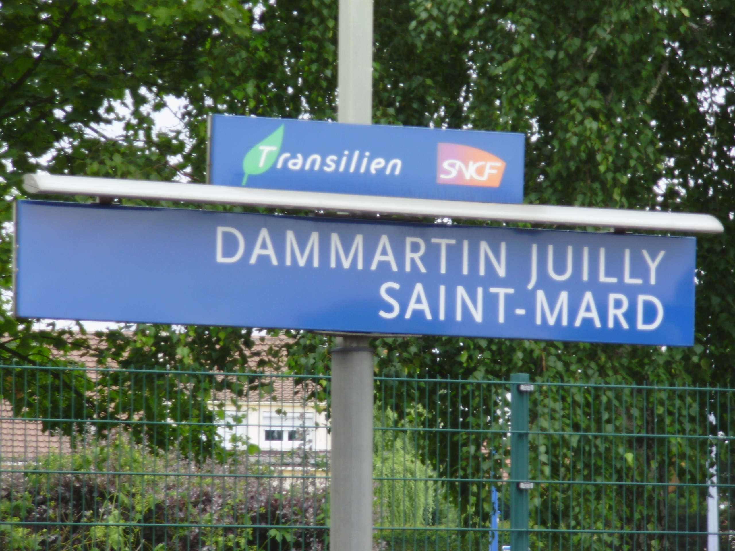 Dammartin - Juilly - Saint-Mard station, in Saint-Mard, Seine-et-Marne, France